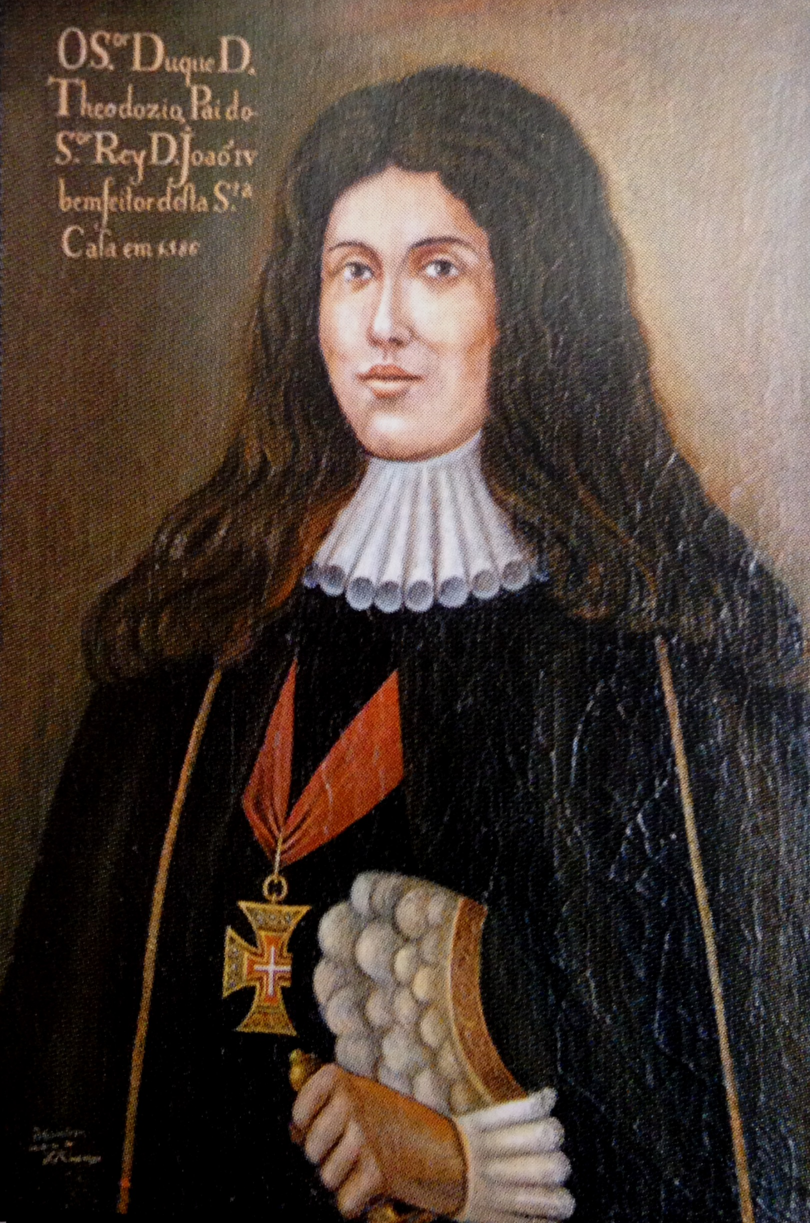 D. João IV Leonor Freire Costa, Mafalda Soares da Cunha